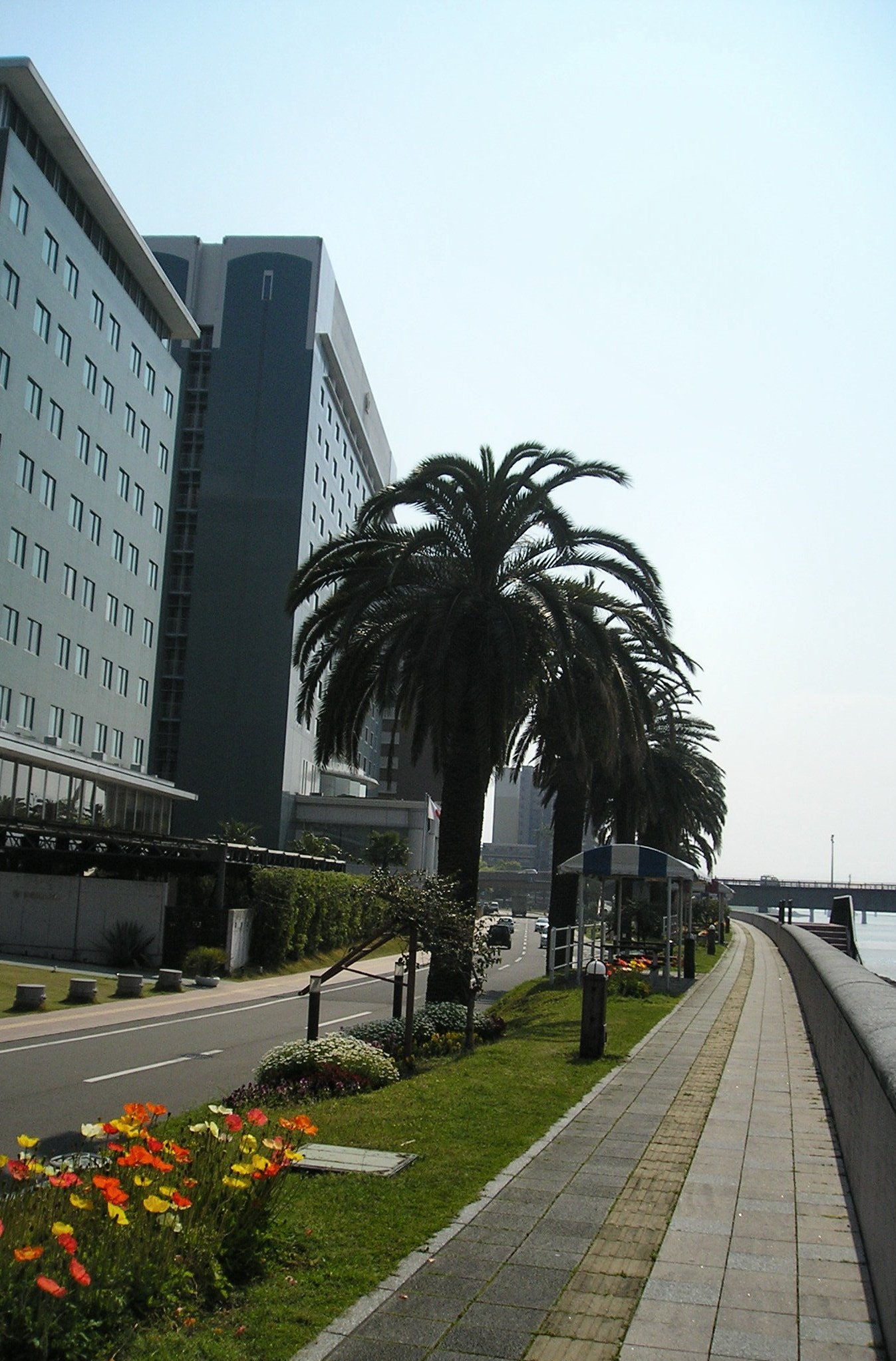 Tachibana Park, Miyazaki City, Japan